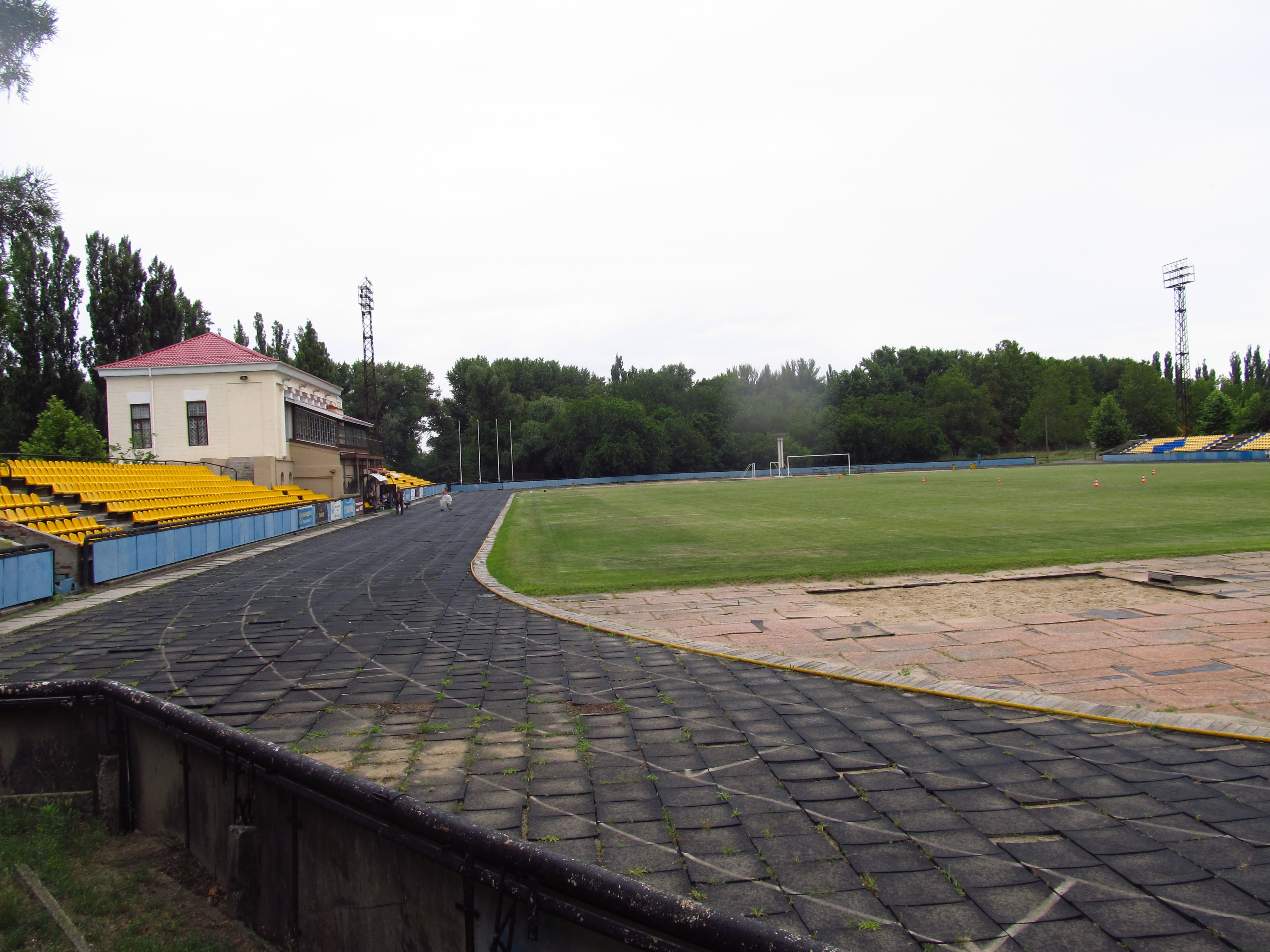 Enerhiya Stadium in Nova Kakhovka, Kherson Oblast, Ukraine